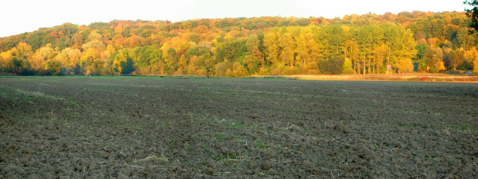 Nature reserve Las Mariański